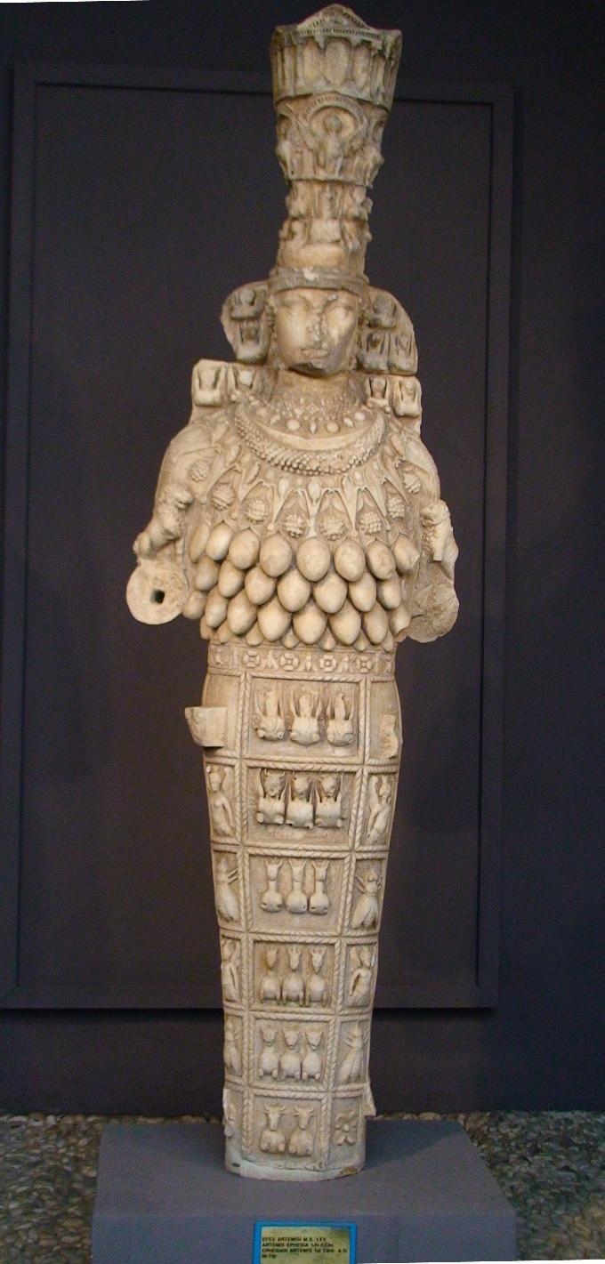 Artemis of Ephesus. 1st century CE Roman copy of the cult statue of the Temple of Ephesus. Statue in the Museum of Efes (Turkey).